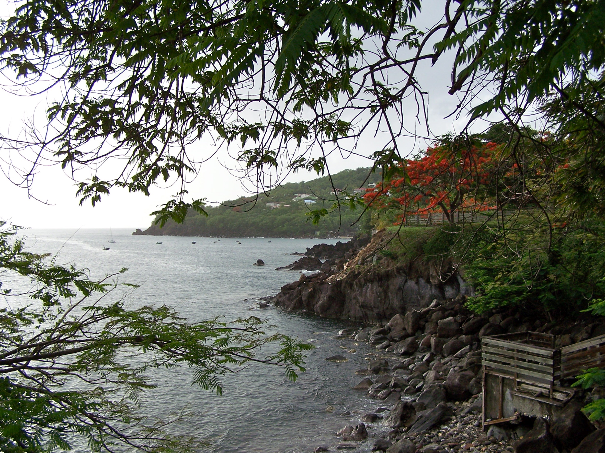 Pointe Cimétière Cato à Pointe-Noire, Guadeloupe